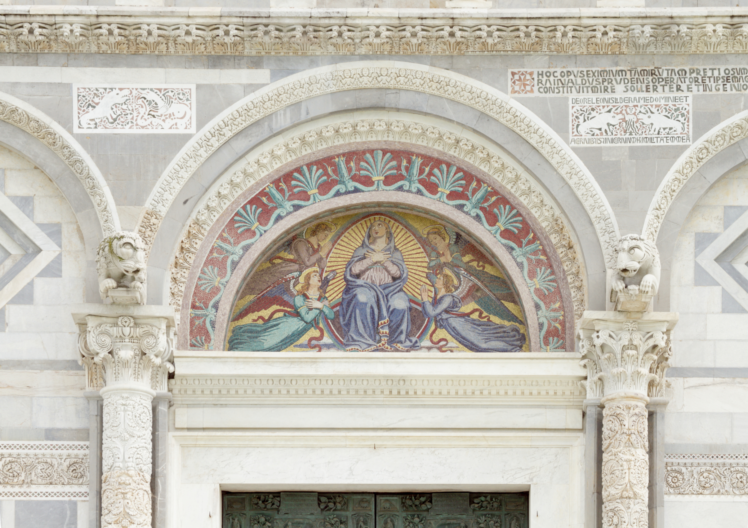 Exterior of the Cathedral (Pisa)